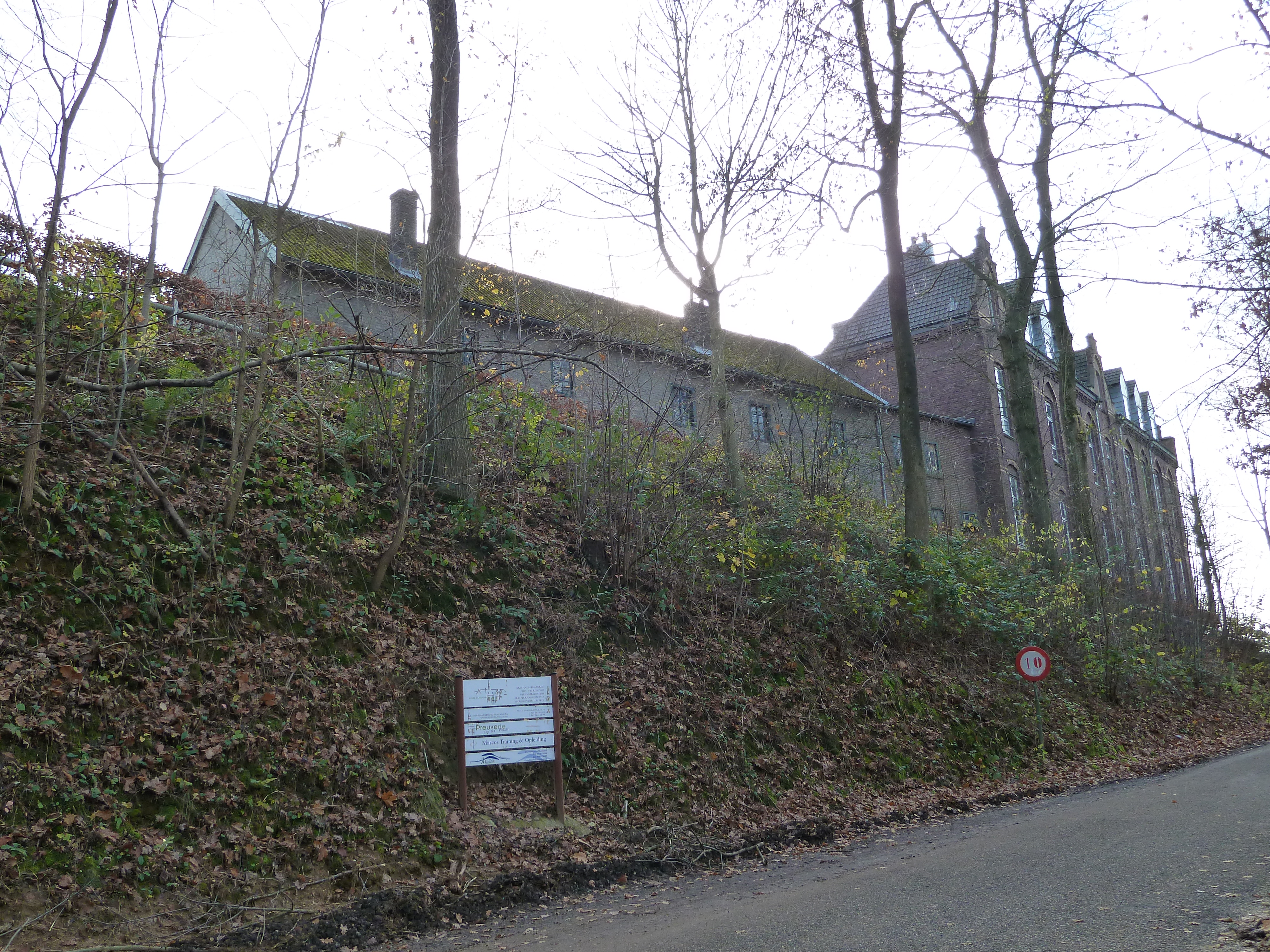 Huize Damiaan, Pater Damiaanstraat 38, Simpelveld, Limburg, the Netherlands